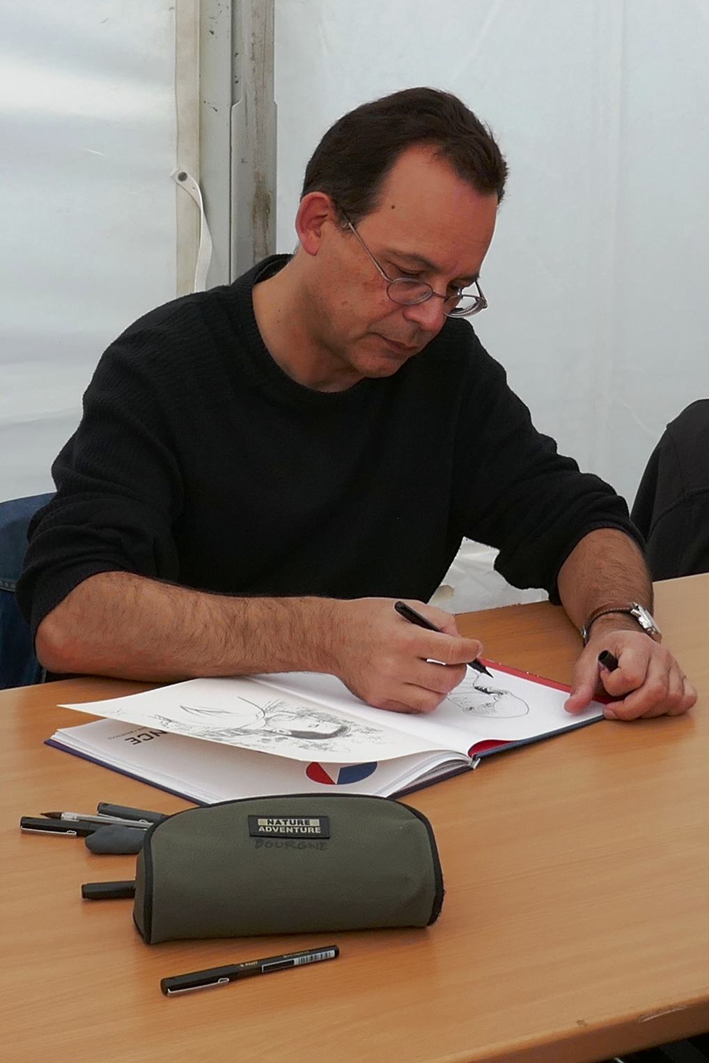 Marc Bourgne at Festival de la BD de Buc 2016